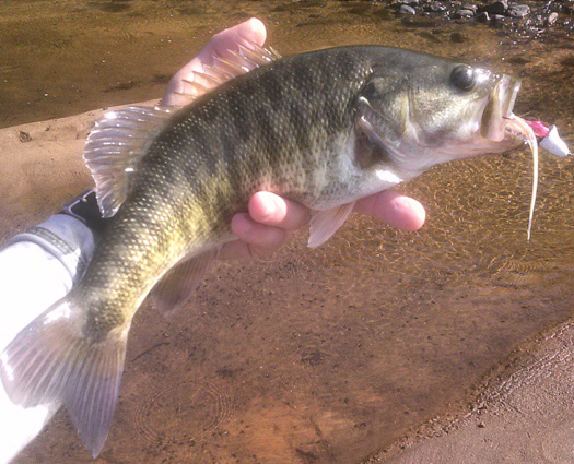 Image of shoal bass caught from the Flint River in Georgia. Caught on a "Swingin D" fly (shown)